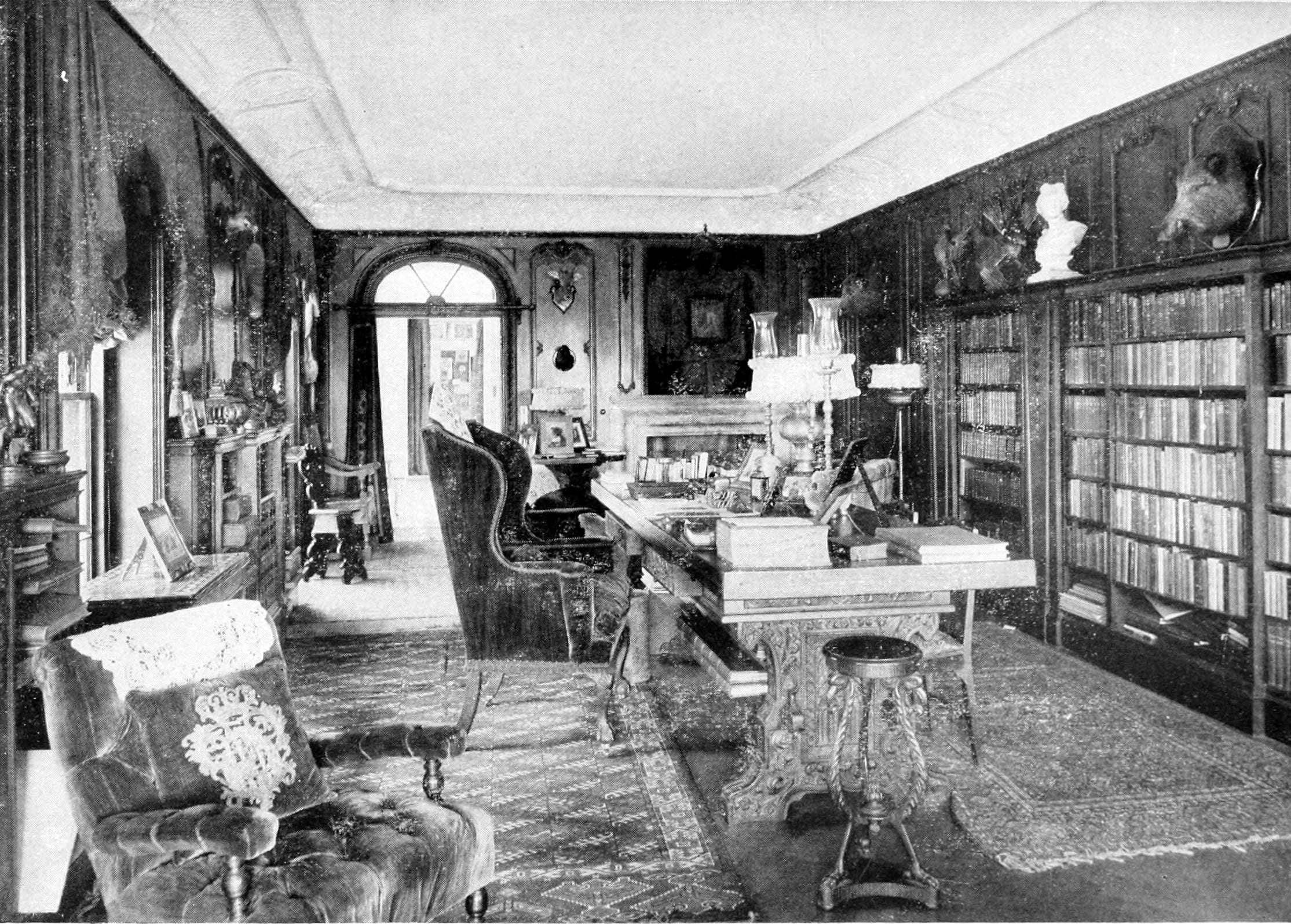 Interior of the private library of George von Lengerke Meyer, United States businessman, diplomat and politician from Massachusetts, at Rock Maple Farm in Hamilton, Massachusetts